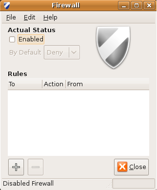 Gufw, Graphic User Interface for ufw firewall